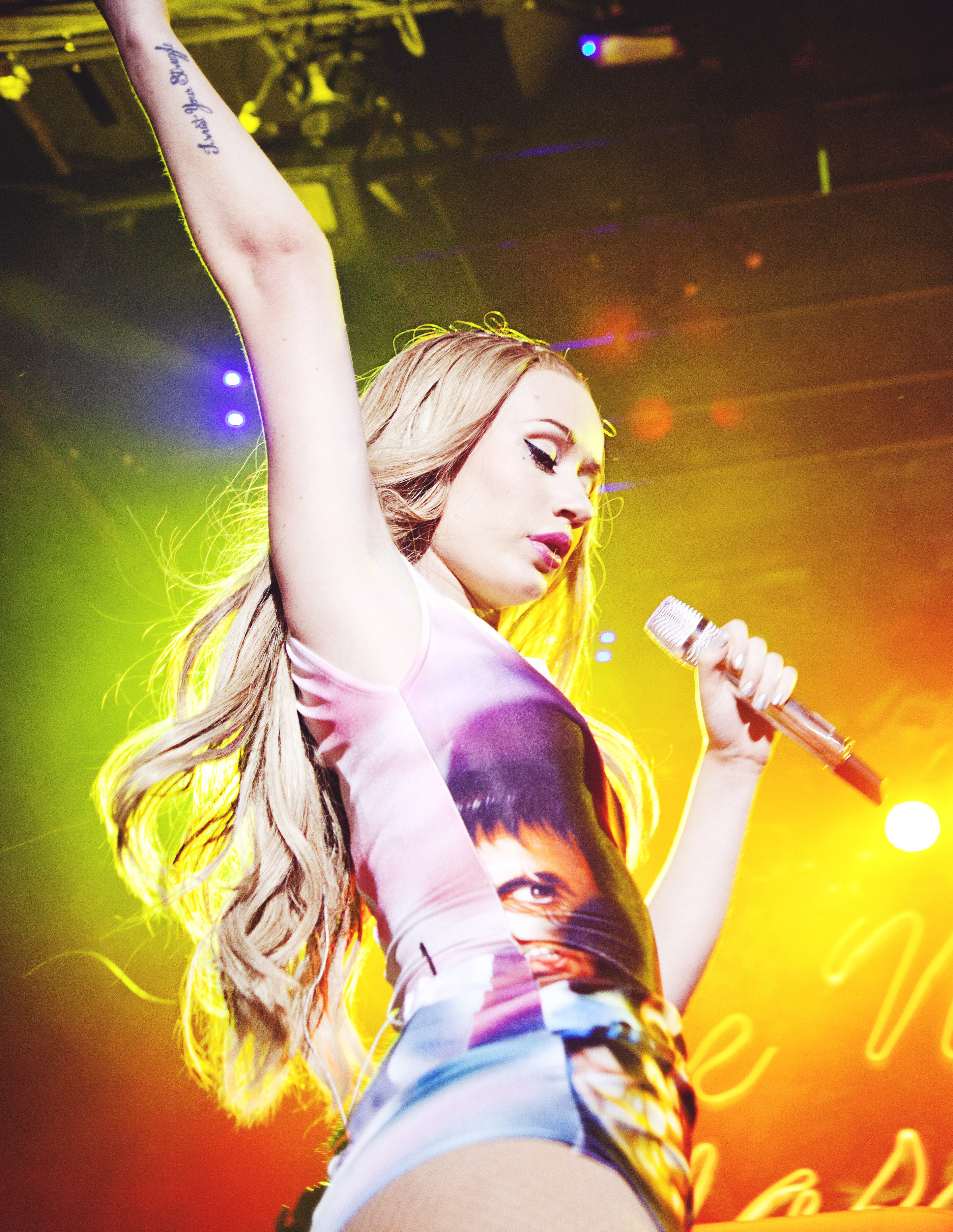 Iggy Azalea performing at the Irving Plaza in New York City, as part of her The New Classic Tour (2014).